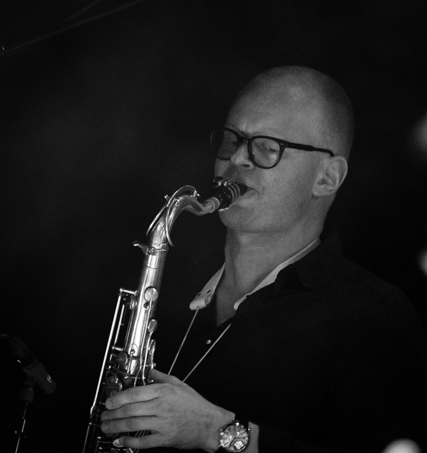 Børge-Are Halvorsen of Ensemble Denada at the stage of Energimølla. The concert was part of Kongsberg Jazzfestival and took place on 07. July 2017. Lineup: Torun Eriksen (vocal) Frank Brodahl (trumpet) Marius Haltli (trumpet) Anders Eriksson (trumpet) Even Kruse Skatrud (trombone) Nils Andreas Granseth (trombone) Frode Nymo (saxophone) BBørge-Are Halvorsen (alto saxophone) Atle Nymo (tenor saxophone) Tina Lægreid Olsen (baritone saxophone) Olga Konkova (piano) Jens Thoresen (guitar) Per Mathisen (bass guitar) Håkon Mjåset Johansen (drums)